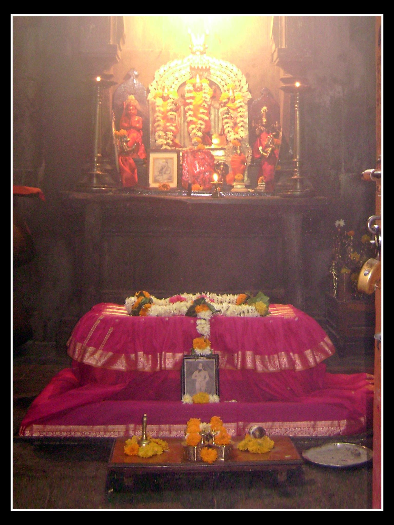 Smaaadhi at post domagon taluka paranda district osmanabad in maharashtra state india.